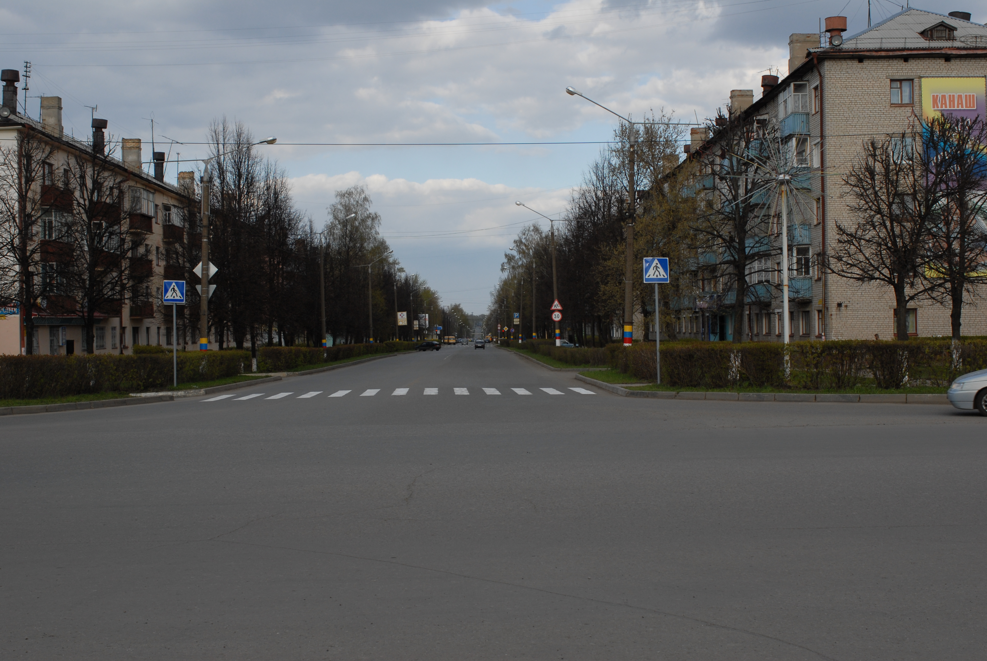 Lenin st. Kanash